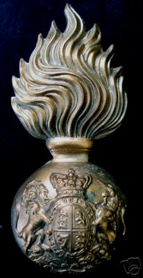 Royal Scots Fusiliers Cap Badge